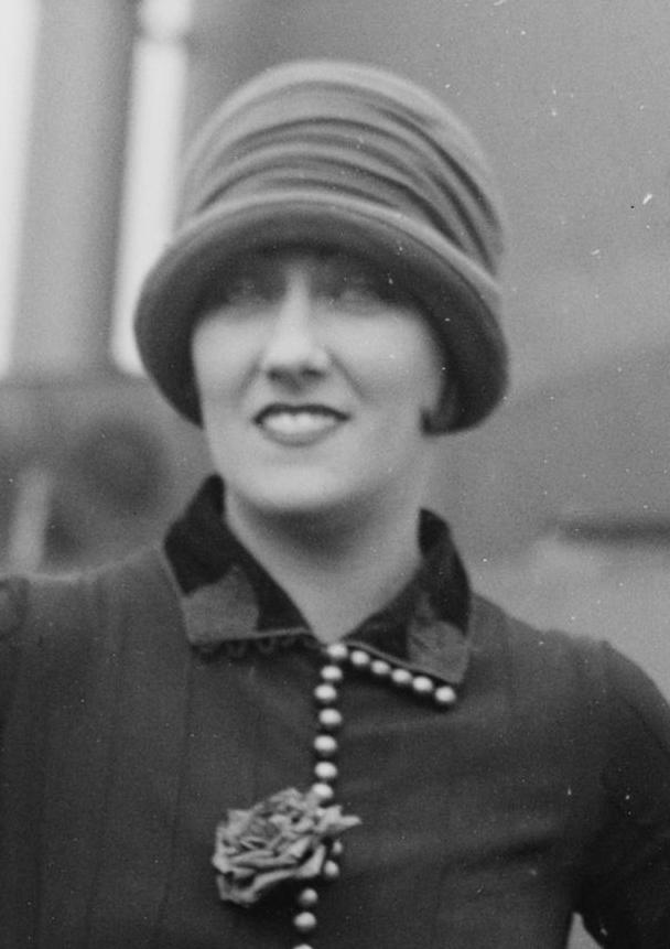 Gloria Swanson